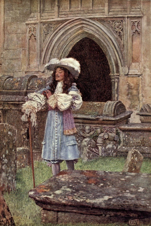 The Book of old English songs and ballads